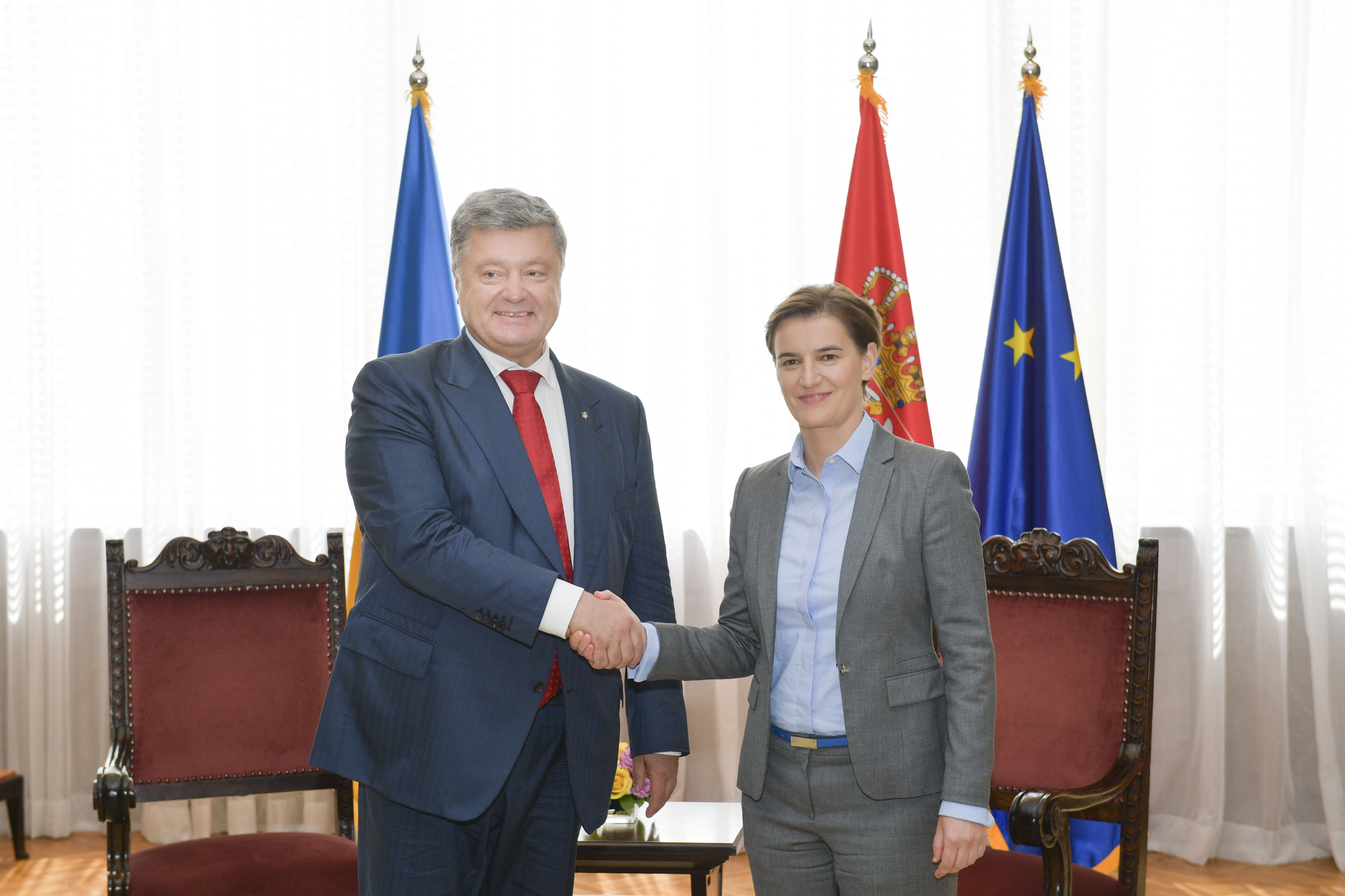 Petro Poroshenko with Ana Brnabić in Serbia